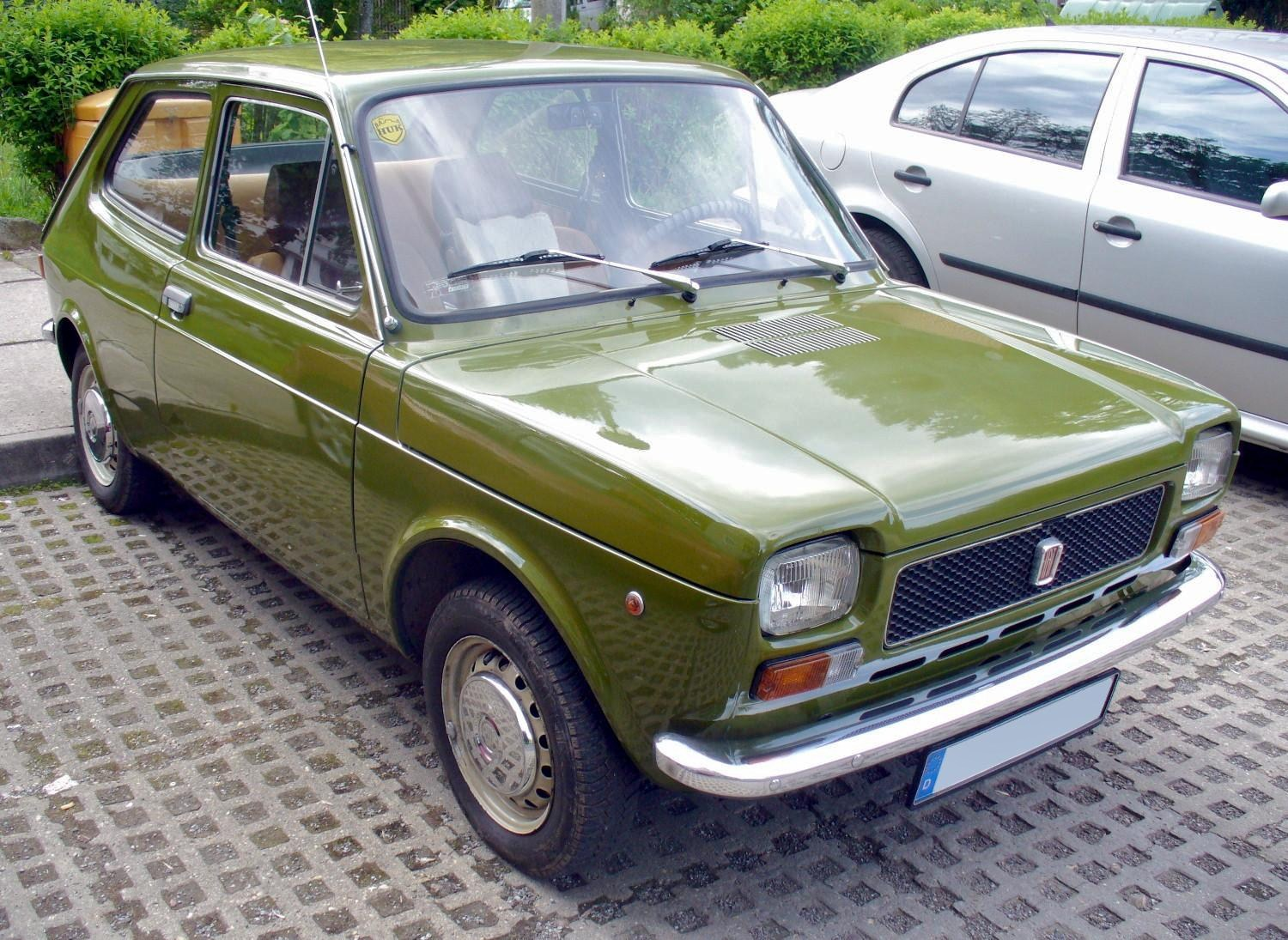 Fiat 127